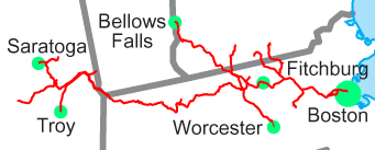 Map of the Fitchburg Railroad at its largest extent